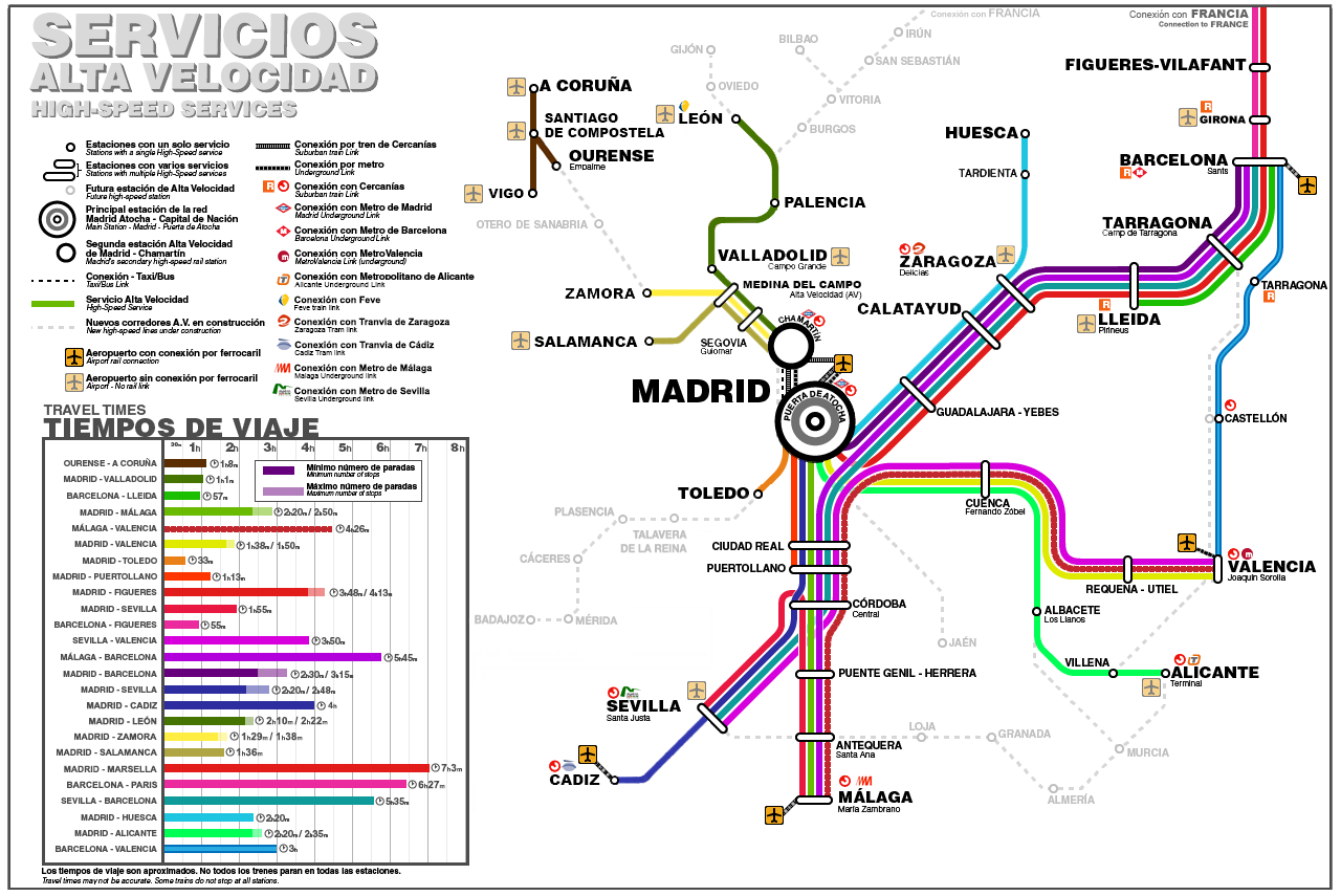 Map of Spain High Speed Services